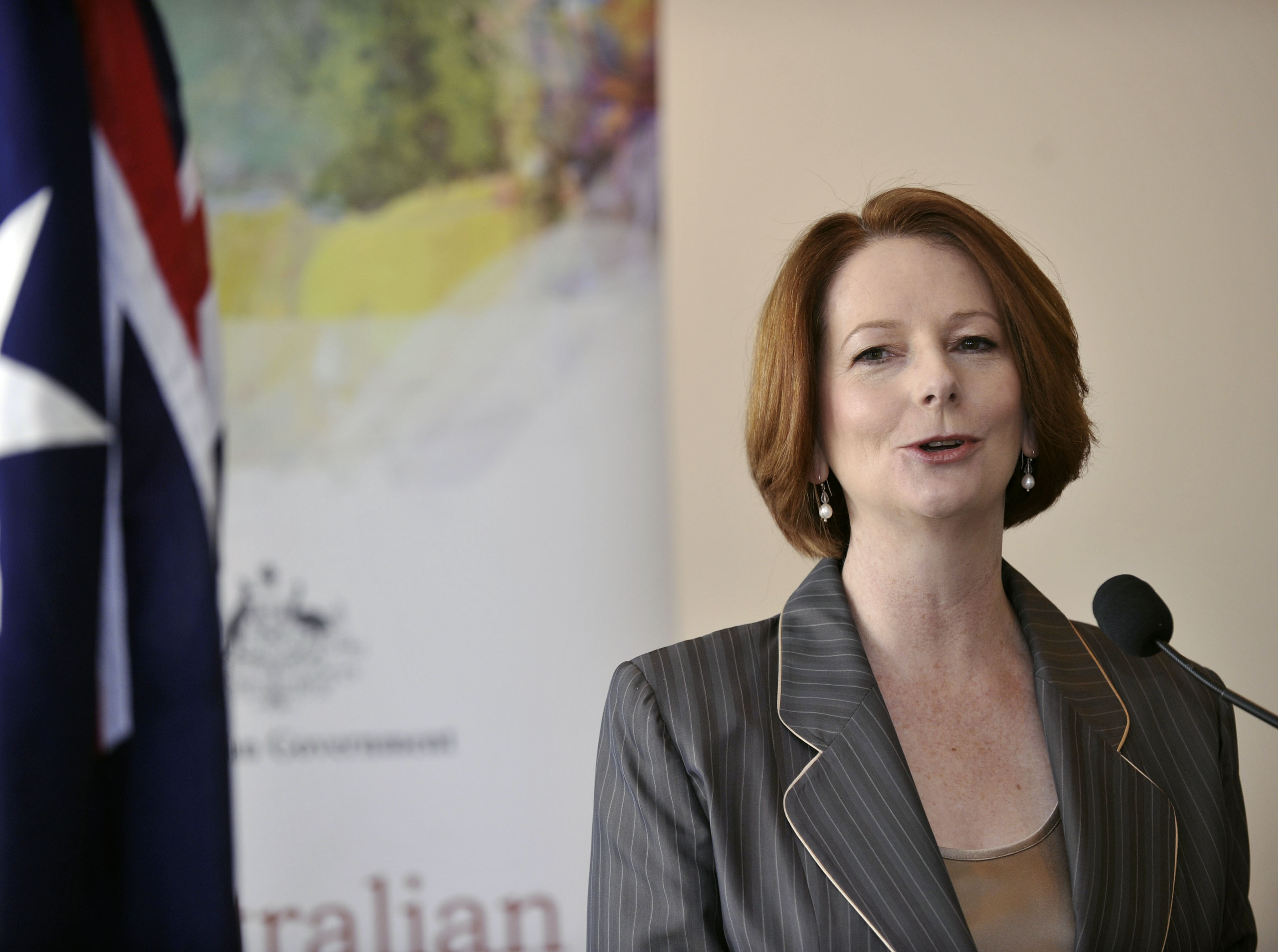 Julia Gillard speaking at the lanch of the Australian Multicultural Council (AMC) and a new local ambassadors program to champion inclusion and highlight the benefits of Australia’s diversity.